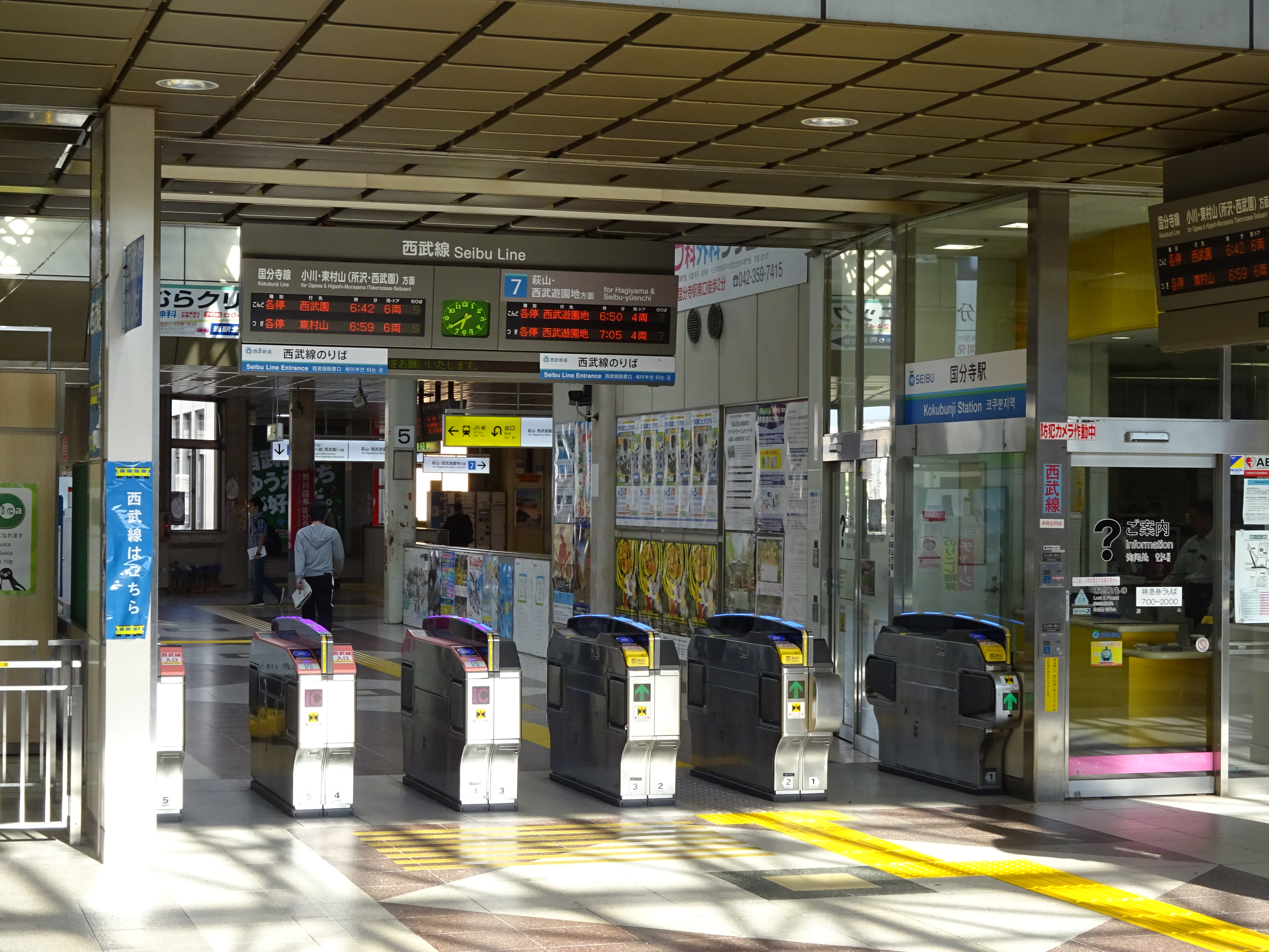 Ticket gate of Kokubunji Station(Seibu)